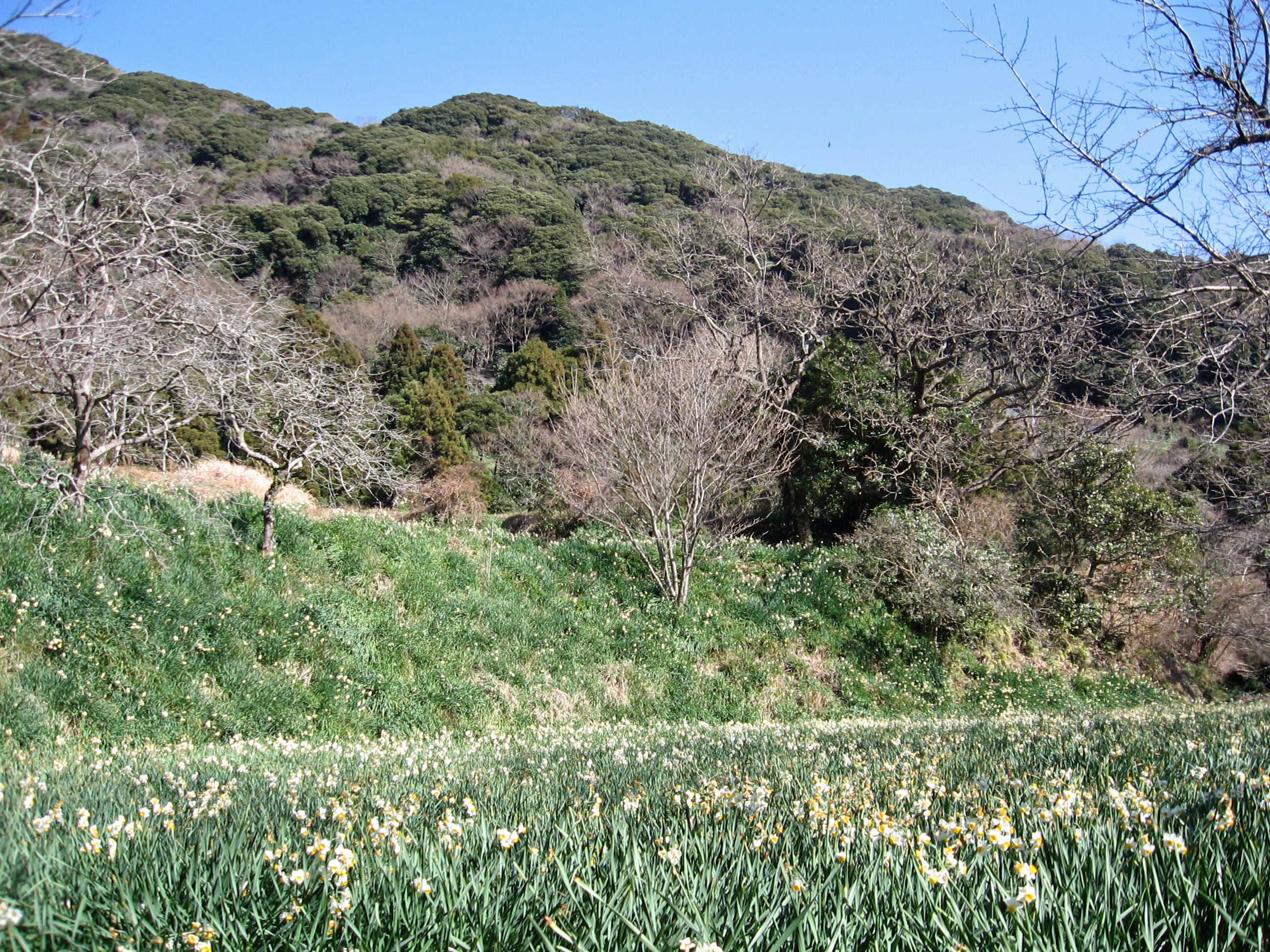 Mount Sagayama and narcissuses